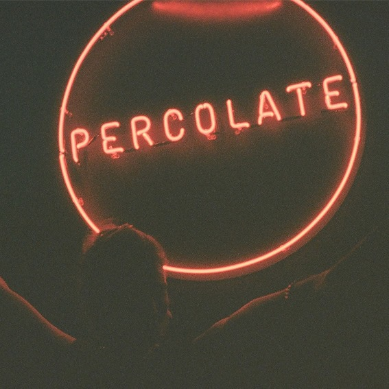 Percolate's Neon Sign - Photographed at an early event